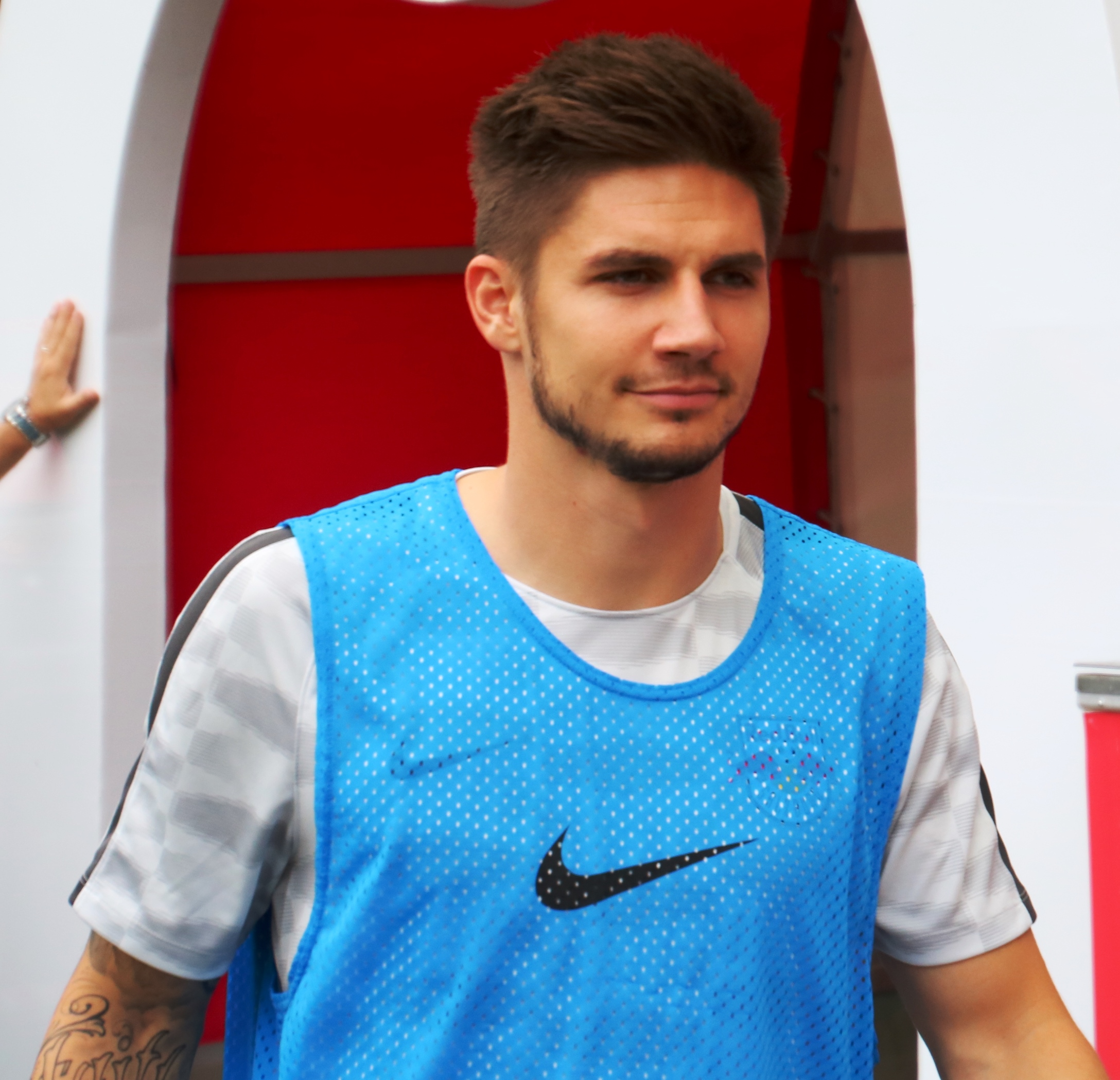 league match Austrian Bundesliga 2nd round